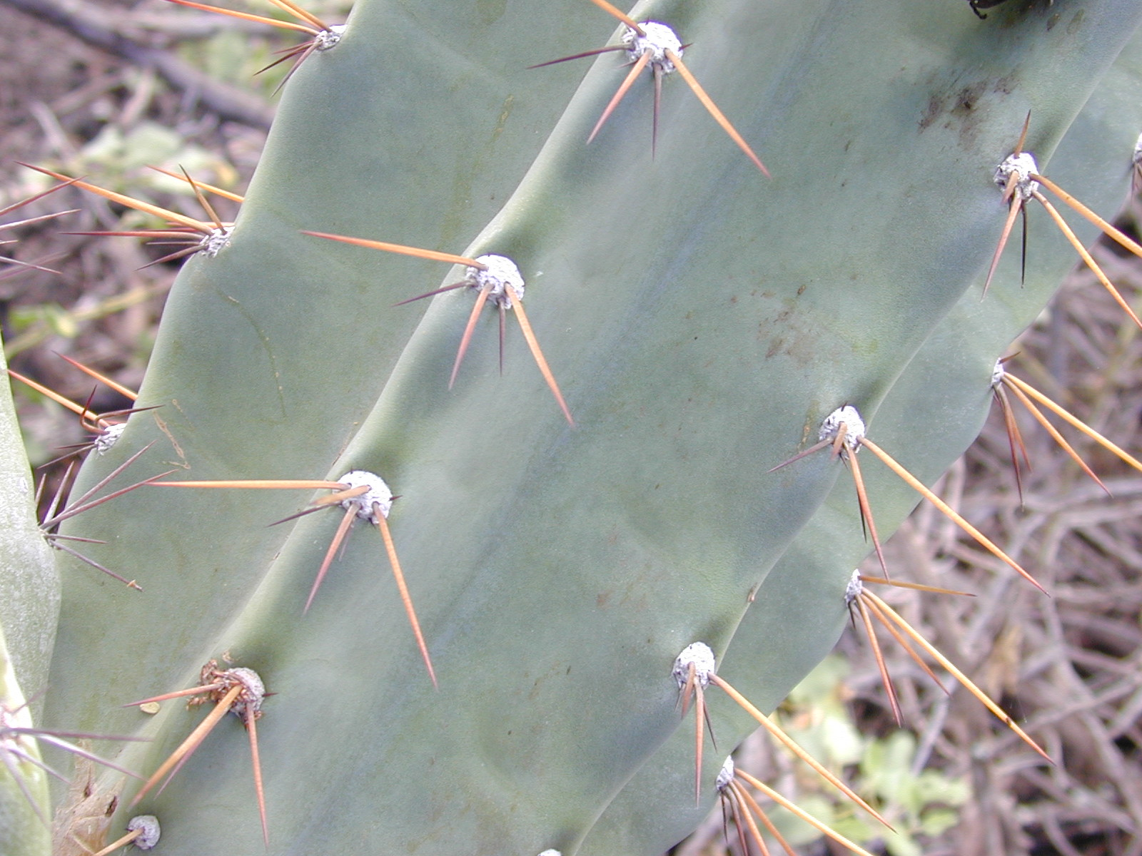 Cereus uruguayanus (spines). Location: Maui, Wailea 670